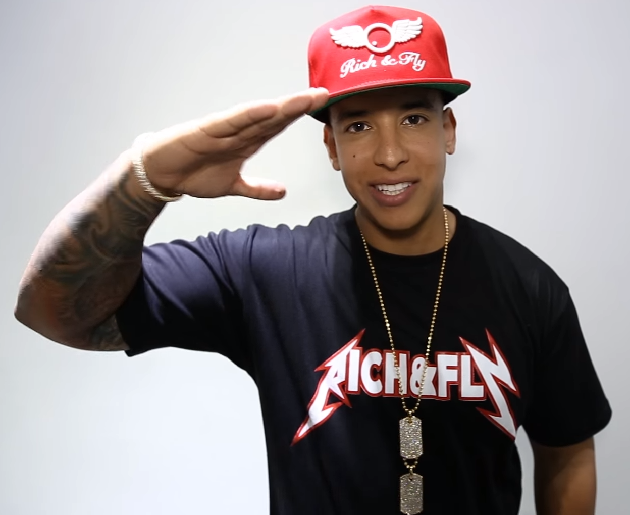 Daddy Yankee - Meet and Greet #DYArmy Cali, Colombia (Behind the Scenes)